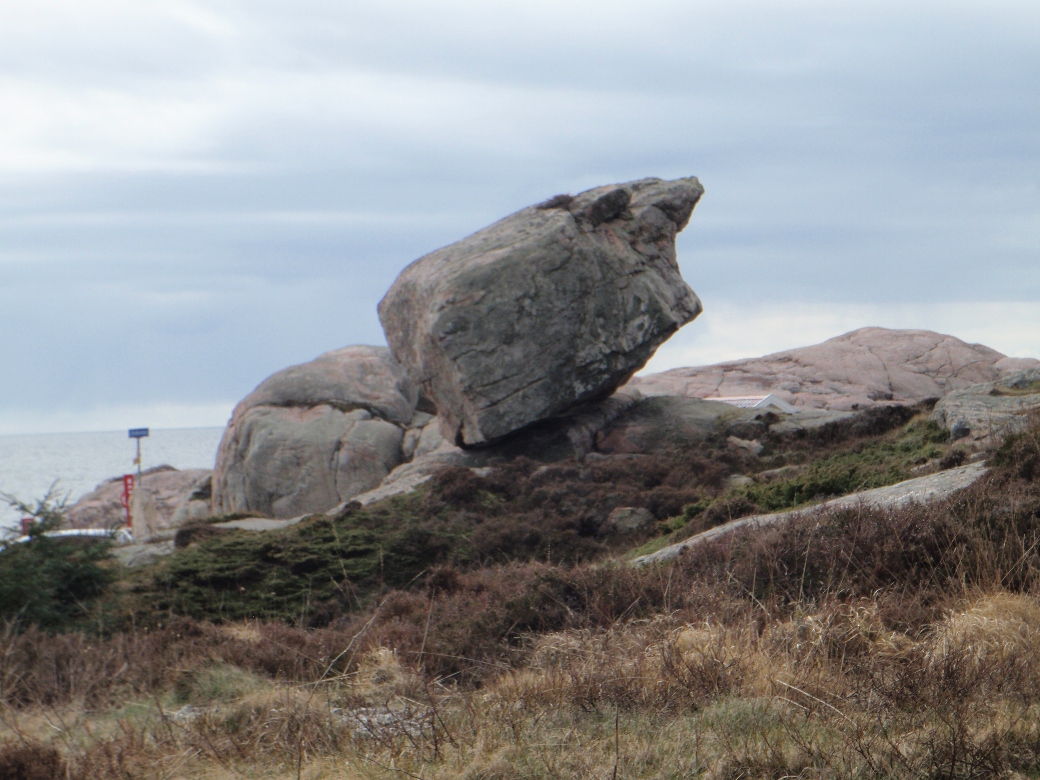 Big granite-block moved almost to the North Sea by the glaciers of last glacial period. Position is ca. 200 m inland from the southmost point of Norvay, by the Lindesnes Lighthouse